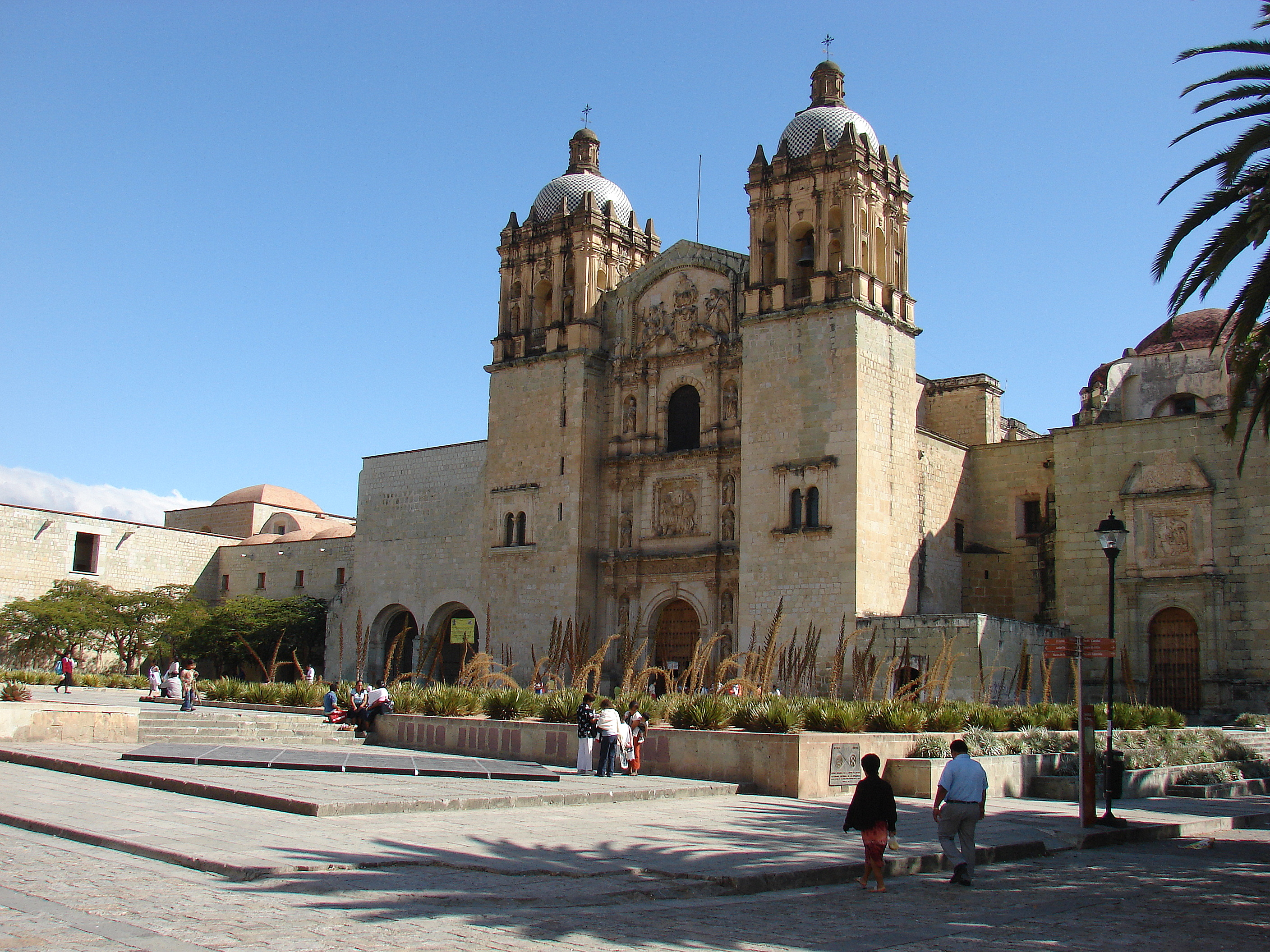 Seen from the main facada of the ex-Convent of Santo Domingo de Guzmán, in Oaxaca city, Oaxaca, Mexico.